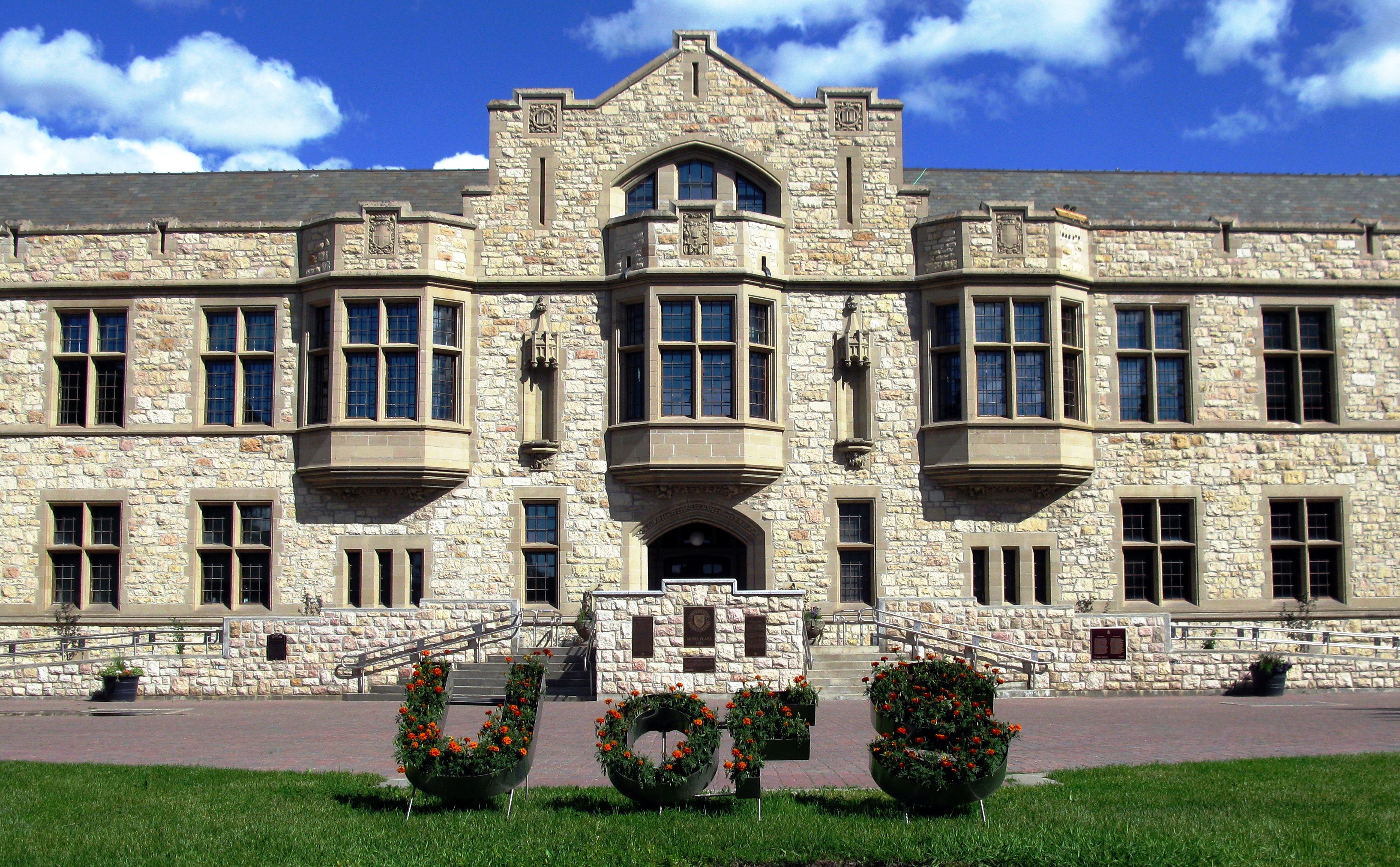 Eh, not my best... but I have nothing to show other then 2 pictures for my day out and about. :(